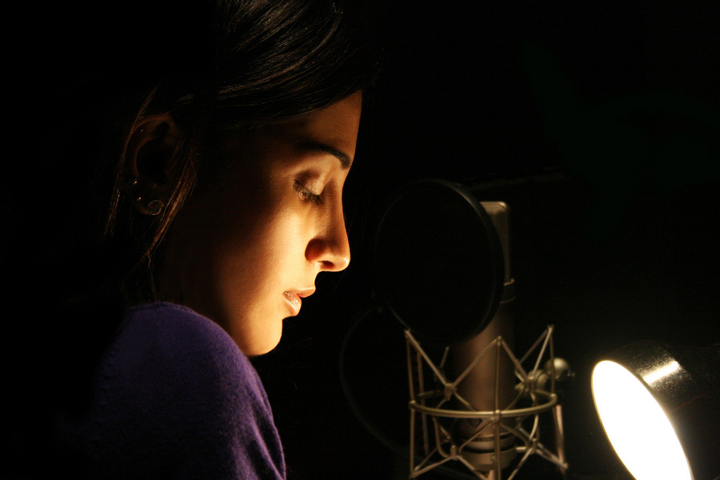 Shruti Haasan at a TeachAIDS recording session in Mumbai, India.